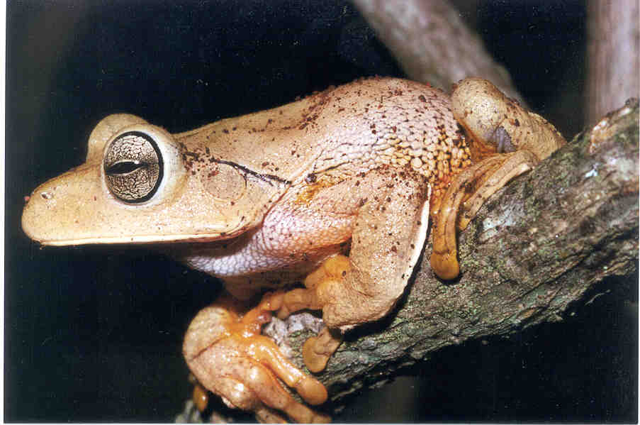 Hypsiboas faber